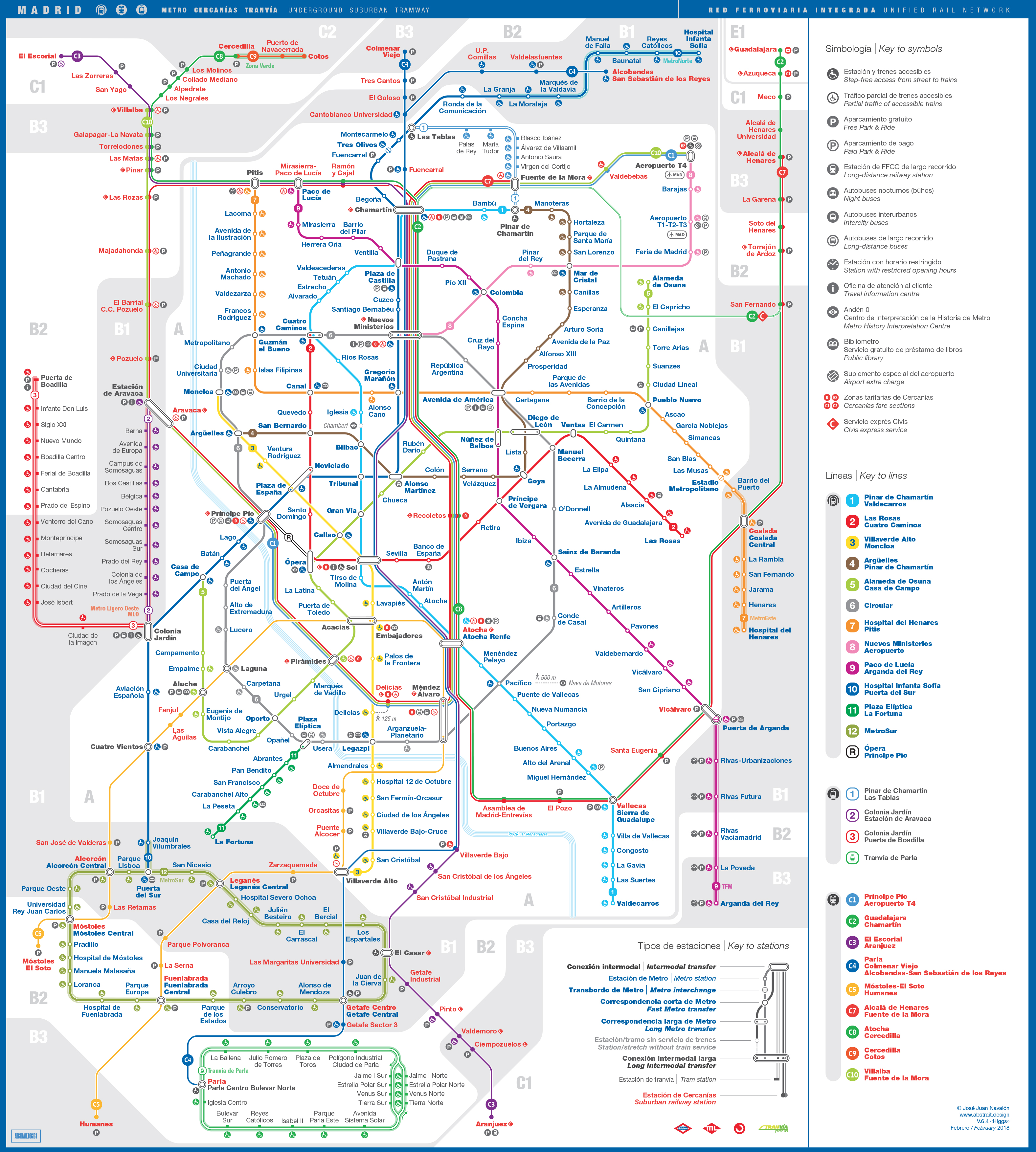 Madrid public transport system map (Metro, cercanías and light metro)